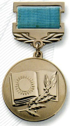 Breastplate to a rank "the Honourable worker of education of Republic Kazakhstan".